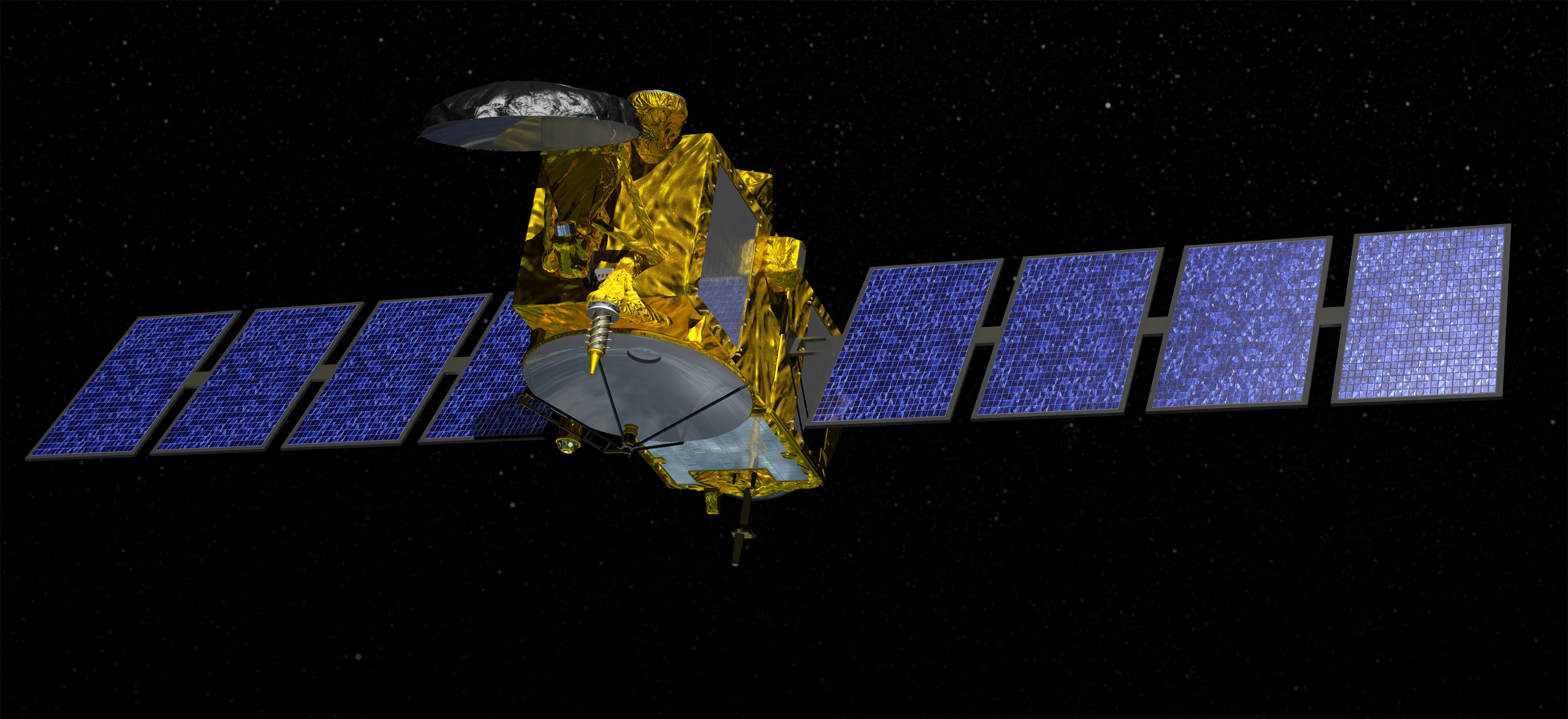 Artist's rendering of Jason-3.